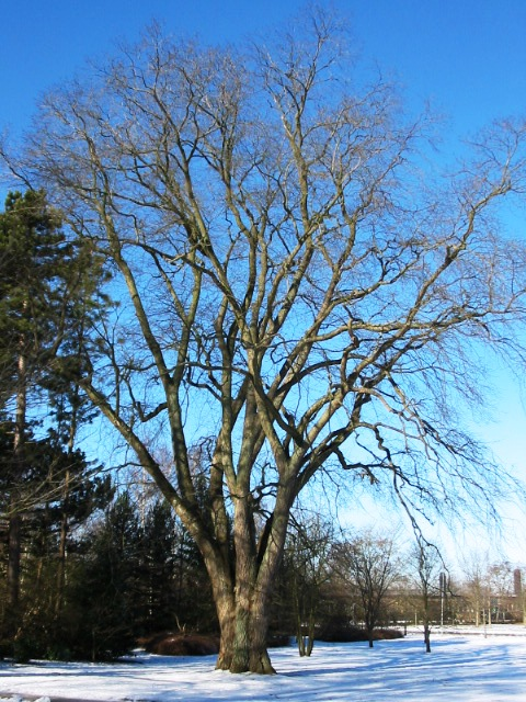 Ulmus glabra (alnarp sweden); Photo by Ronnie Nijboer